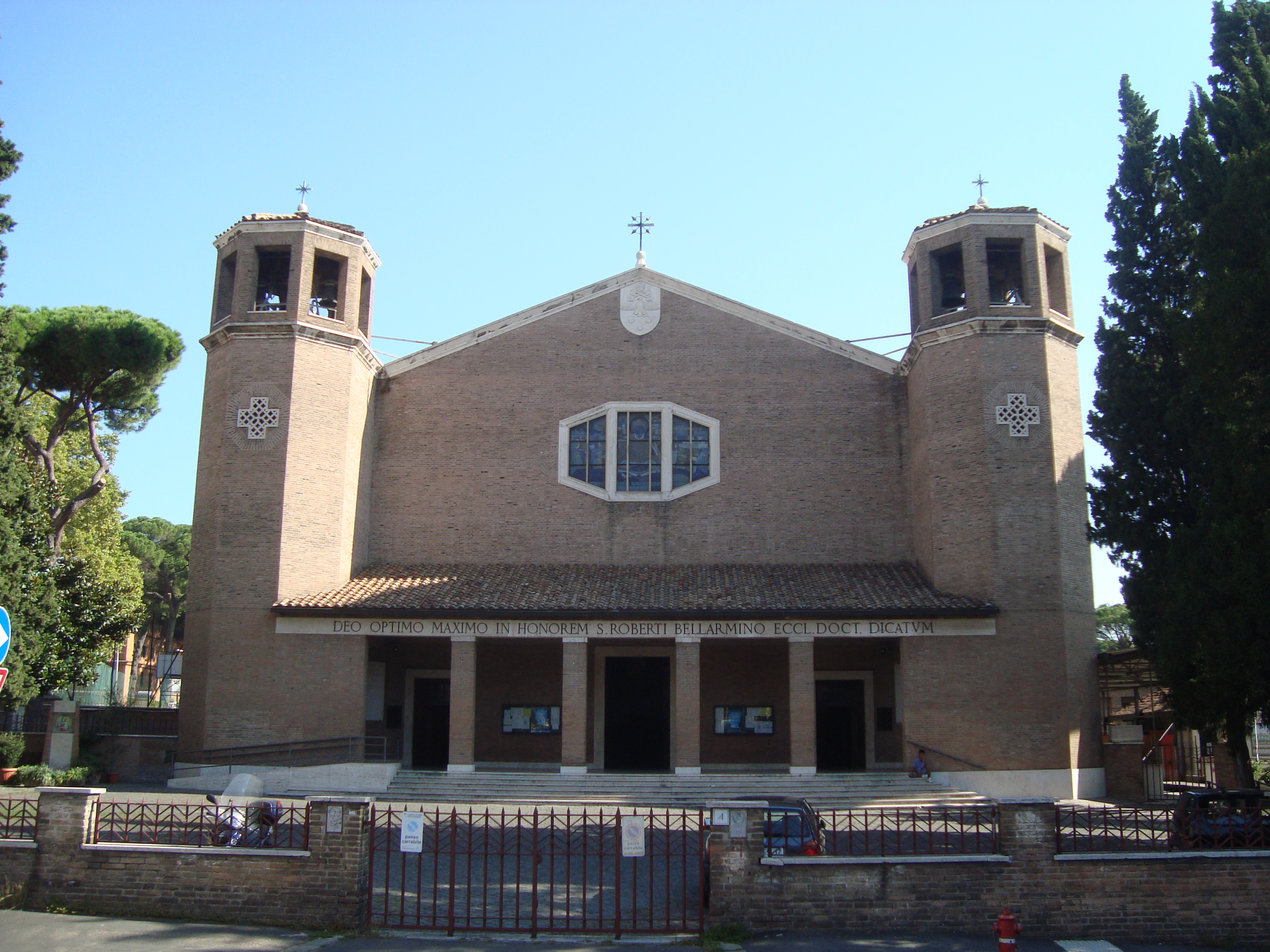 The churche San Roberto Bellarmino at piazza Ungharia in the quartiere Parioli in Rome